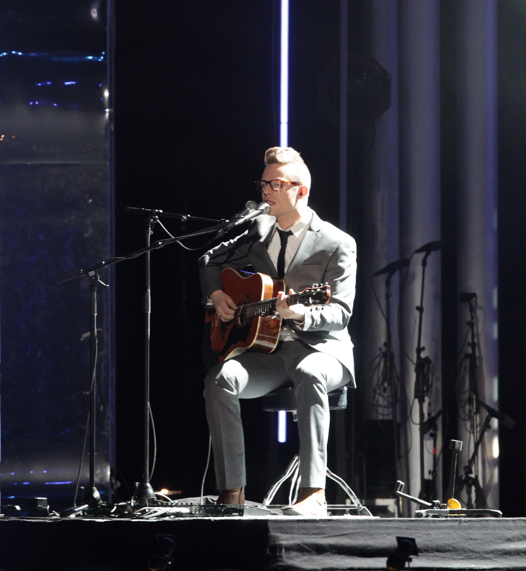 Nobel Peace Prize Concert 2011, Jarle Bernhoft